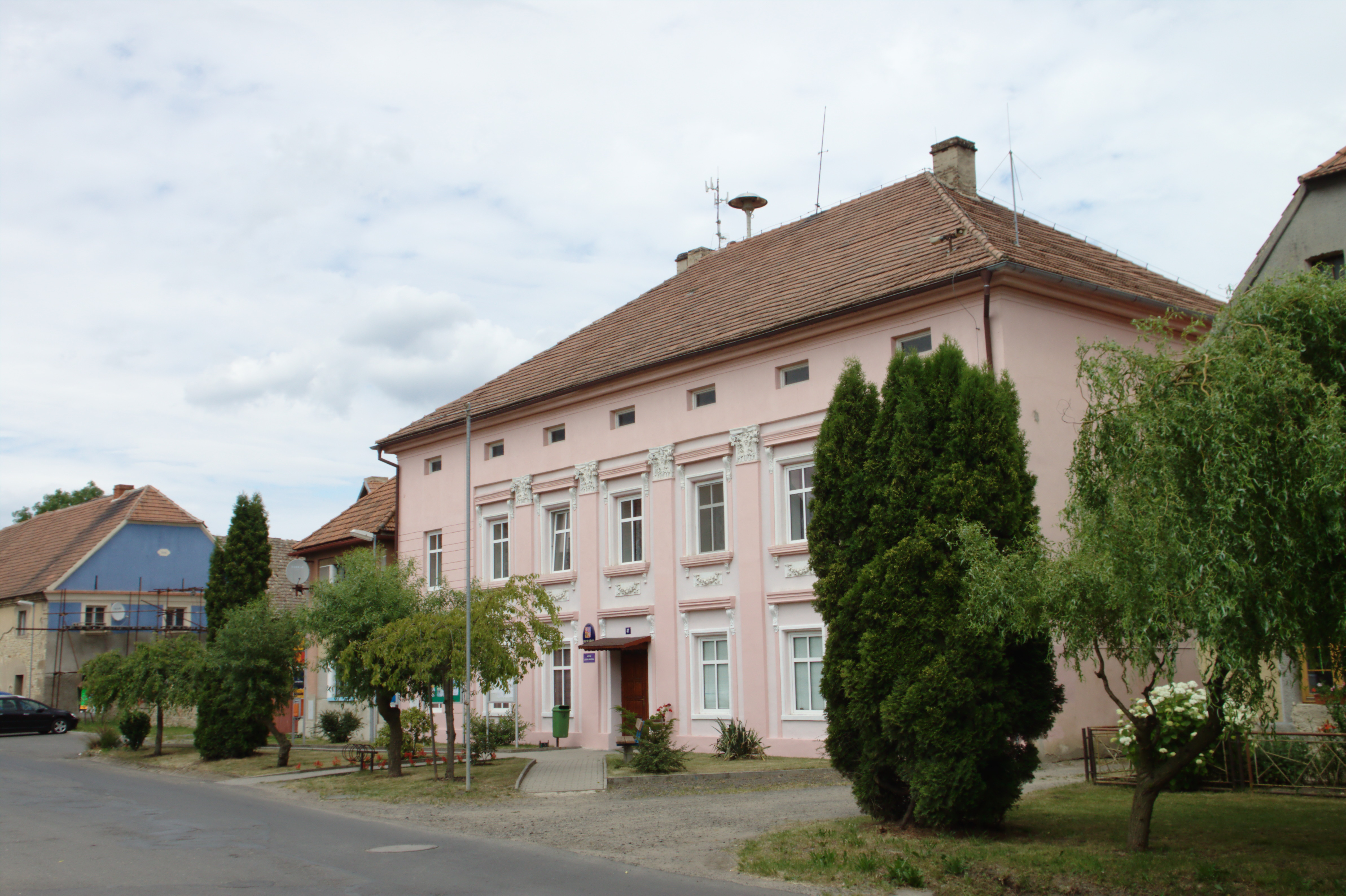 Town hall in Vrbice, Ústí Region, CZ